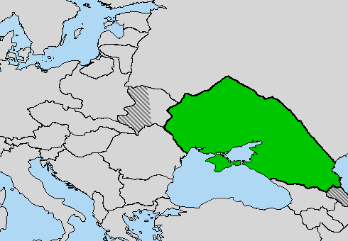 Map of territory controlled by the Armed Forces of South Russia as of 13 October 1919.